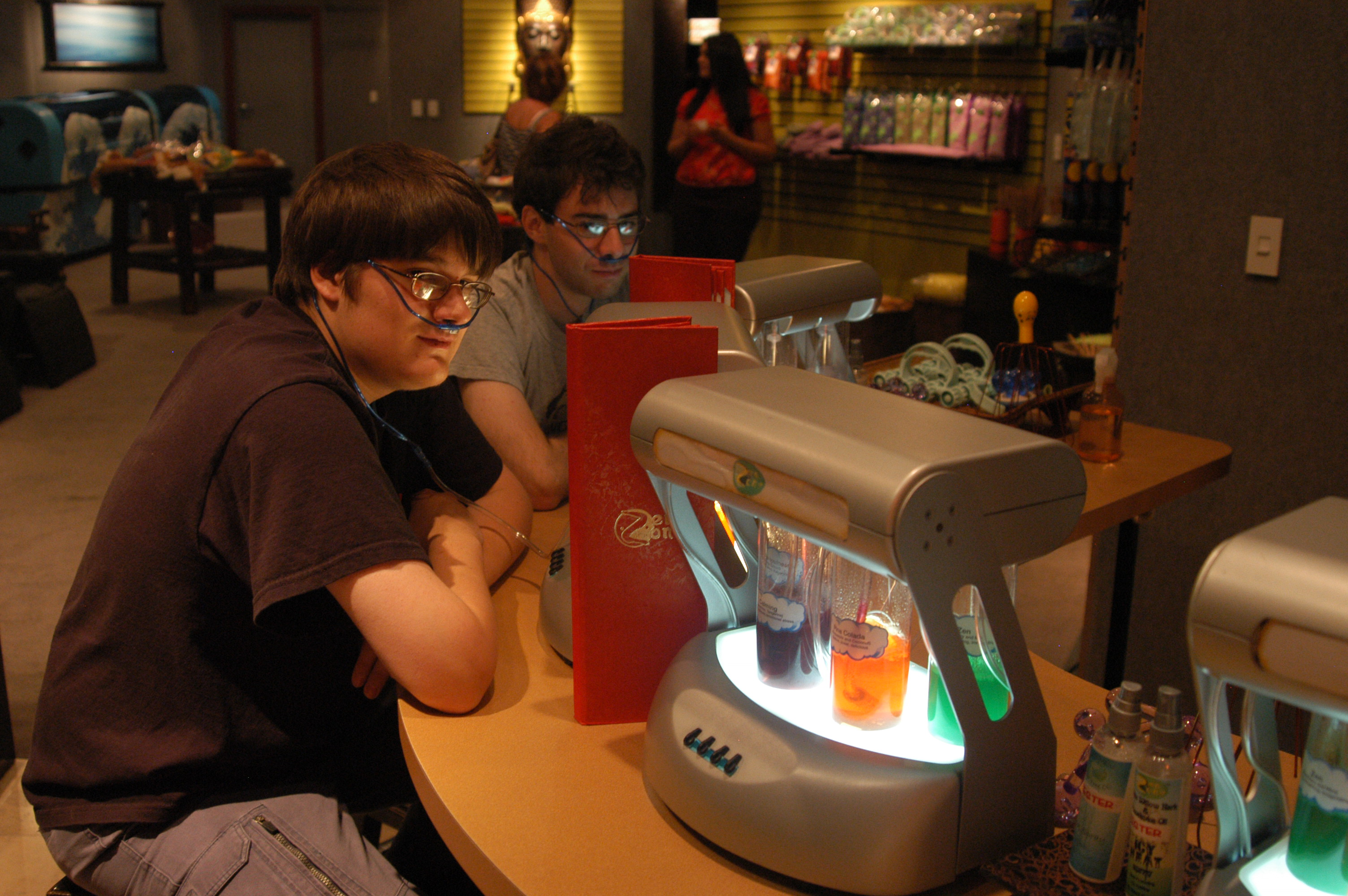 Interior of an oxygen bar, showing oils that are used to flavor the gas.